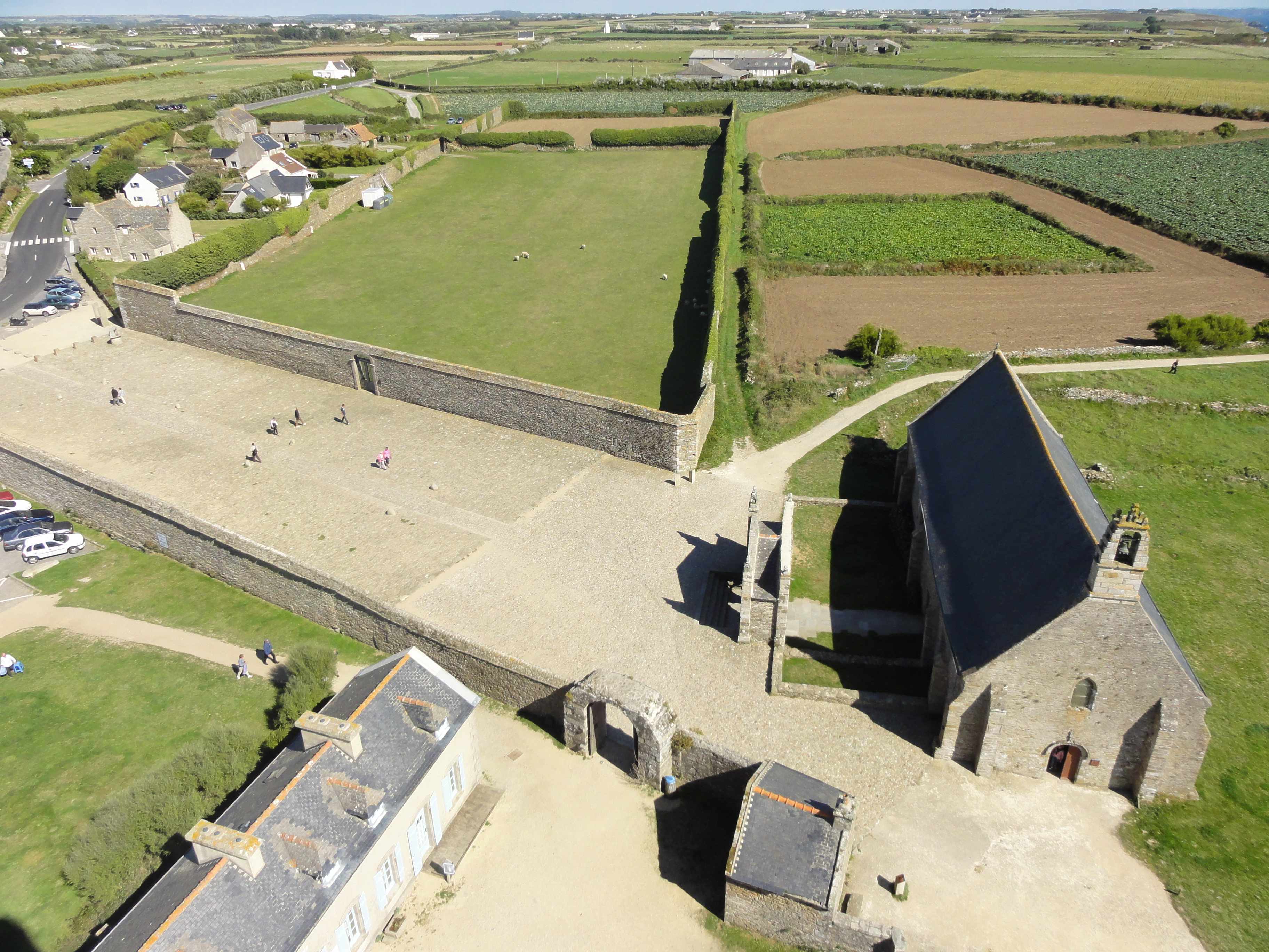 View from the top of Saint-Mathieu Lighthouse (Britanny, France) looking eastward